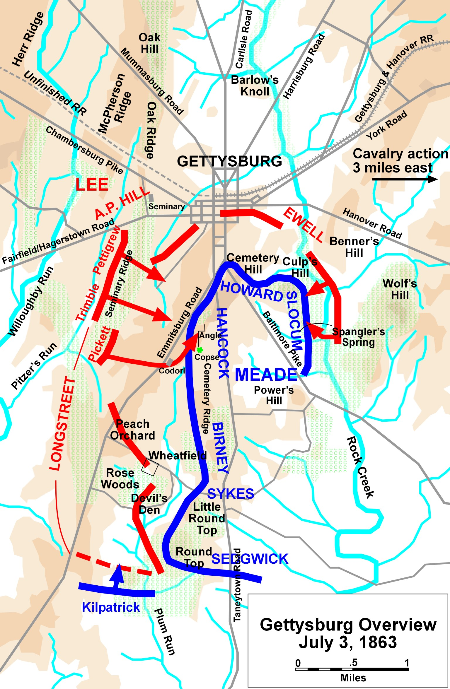 Action on July 1, 1863 at Gettysburg, Pa